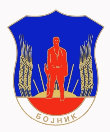 Bojnik coats of arms, Serbia